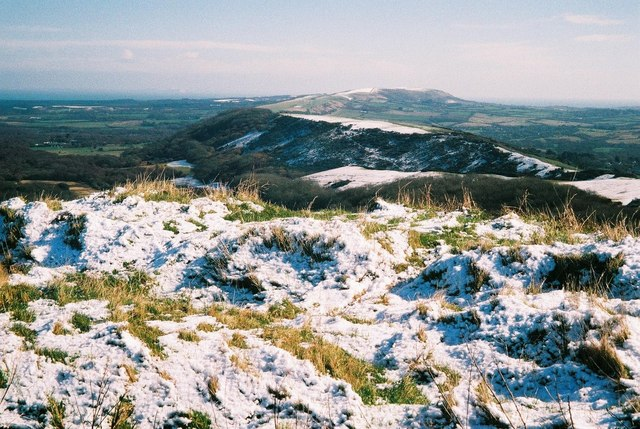 Creech: snowy ridge-top view Looking east on a bitterly cold morning from Creech Barrow Hill (by the trig point). Top-left of picture, the Needles on the Isle of Wight are just visible – the natural extension to this chalk ridge.